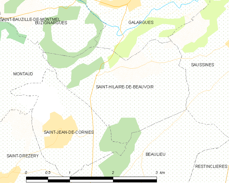 Map commune FR insee code 34263.png - Saint-Hilaire-de-Beauvoir